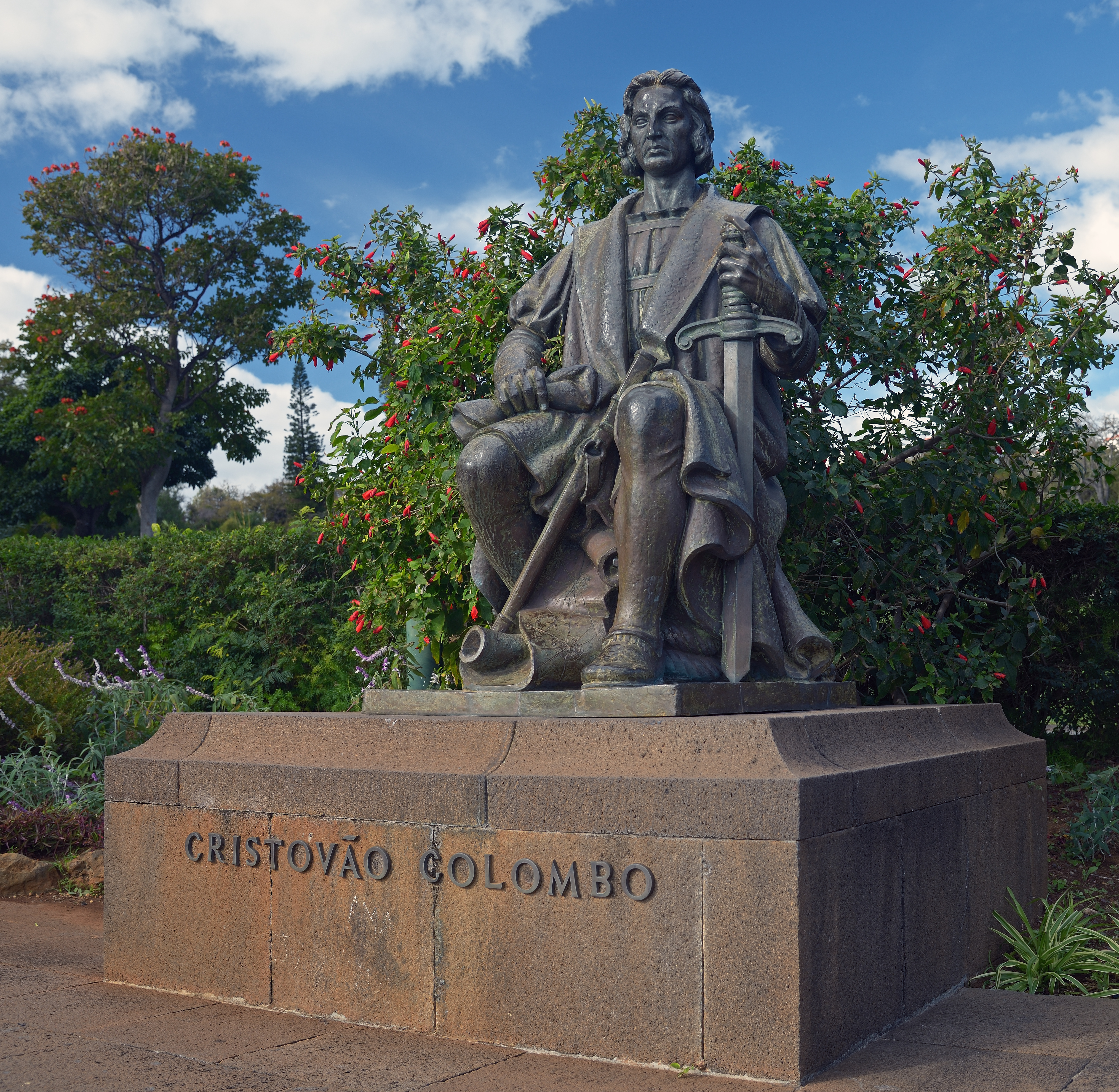 Columbus Monument in Funchal, Madeira.